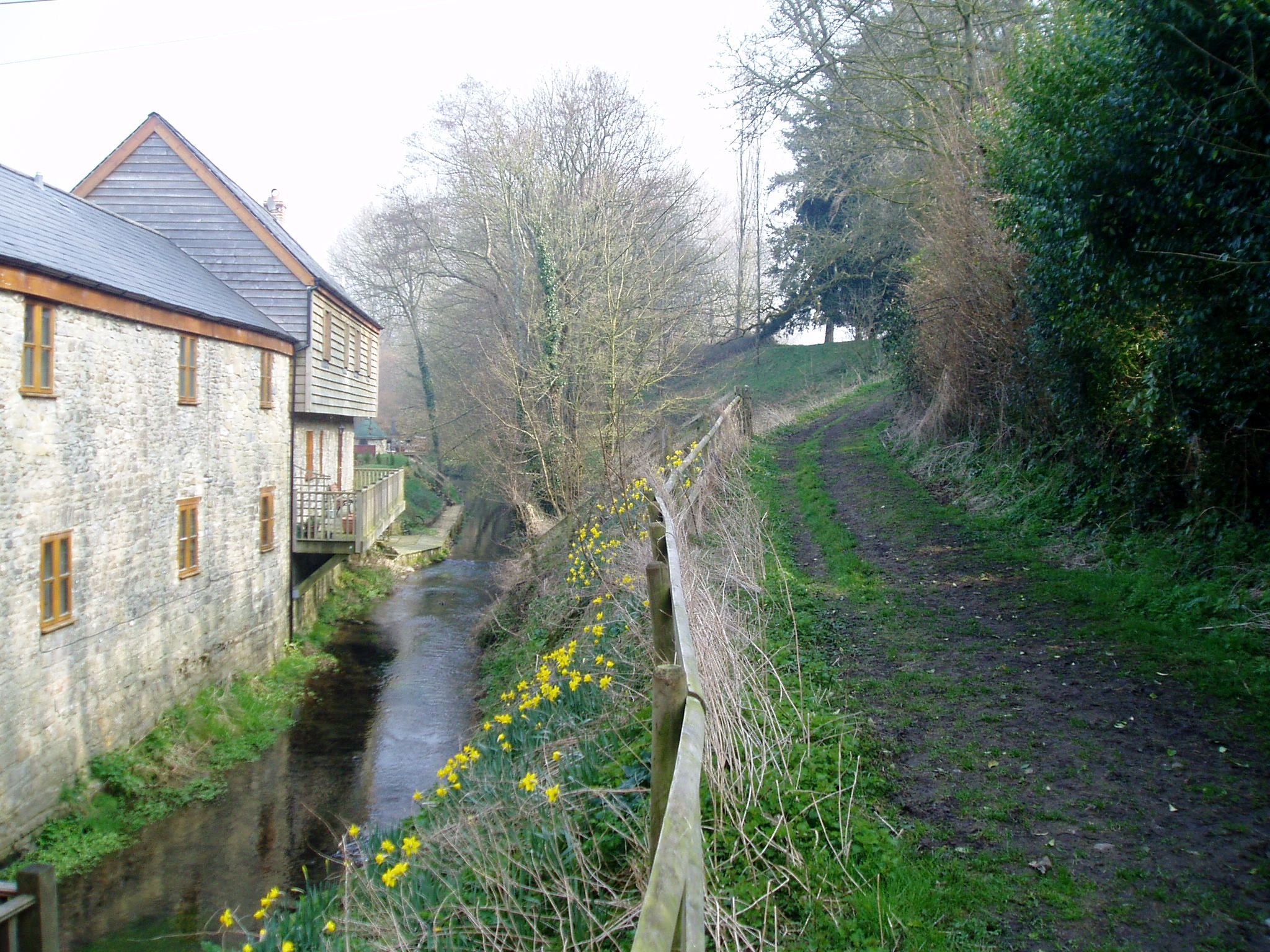 Mill stream at rear of Weycroft Mill House The public footpath leaves Weycroft for higher ground.